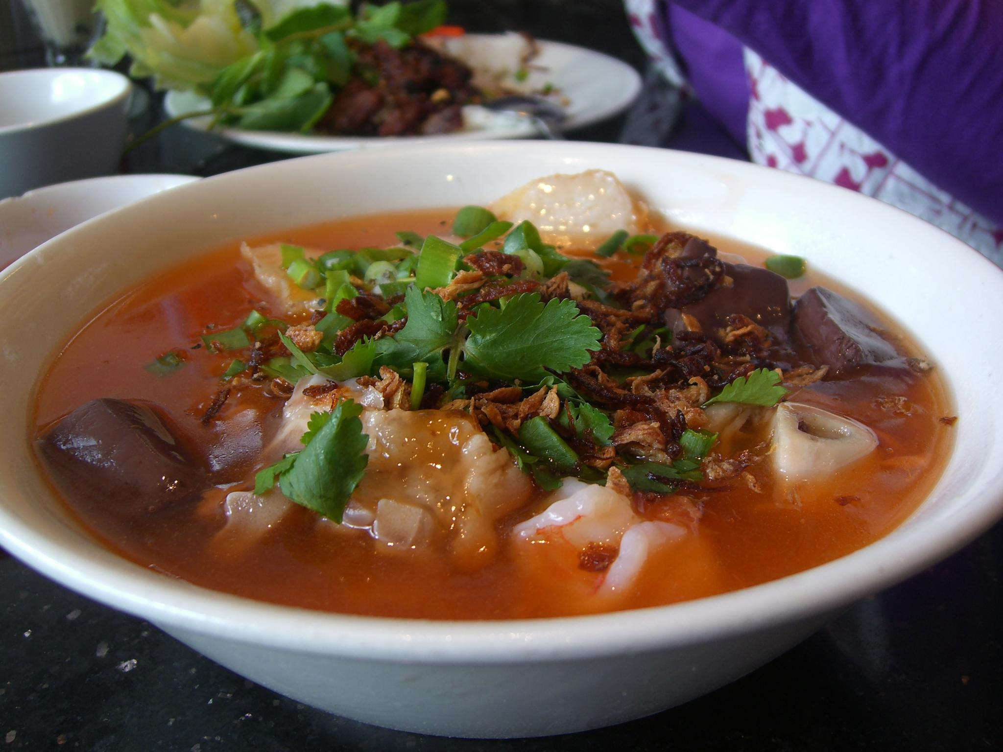 The 猪脚猪红虾饼濑粉 Banh Canh Cua was very good. The 濑粉 Bánh canh was thick, slippery and chewy! The thick starchy soup was nice, but it did have an initial metallic twang which went away after I gave it a squeeze of lemon and a splash of fish sauce. The sections of pork knuckle were cooked just right, making the skin and tendons firm and chrunchy, although I do like them cooked until they're a silky slurpy mass too :) Also good were the cubes of pork blood jelly and tasty sliced prawn cakes. Maybe I should plan on eating my way through Alice's Guide to Vietnamese Banh! :P --- Packed for Sunday lunch, with a quick turnover and a short queue spilling into the carpark outside. 和珍 Hoa Tran Restaurant (03) 9547 7879 246a Springvale Rd Springvale VIC 3171